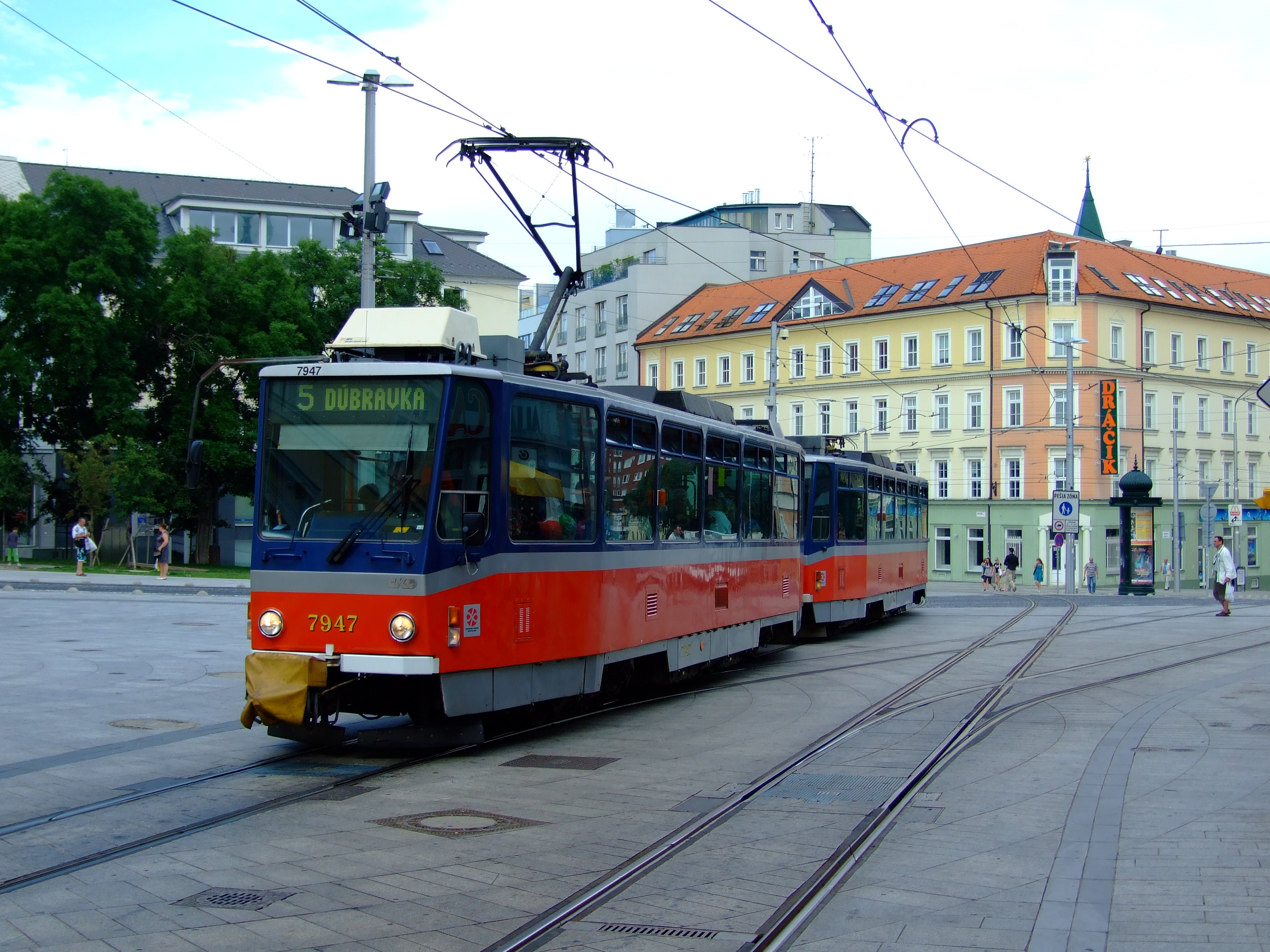 Public transport trams Tatra T6A5 in Bratislava, SKhelp